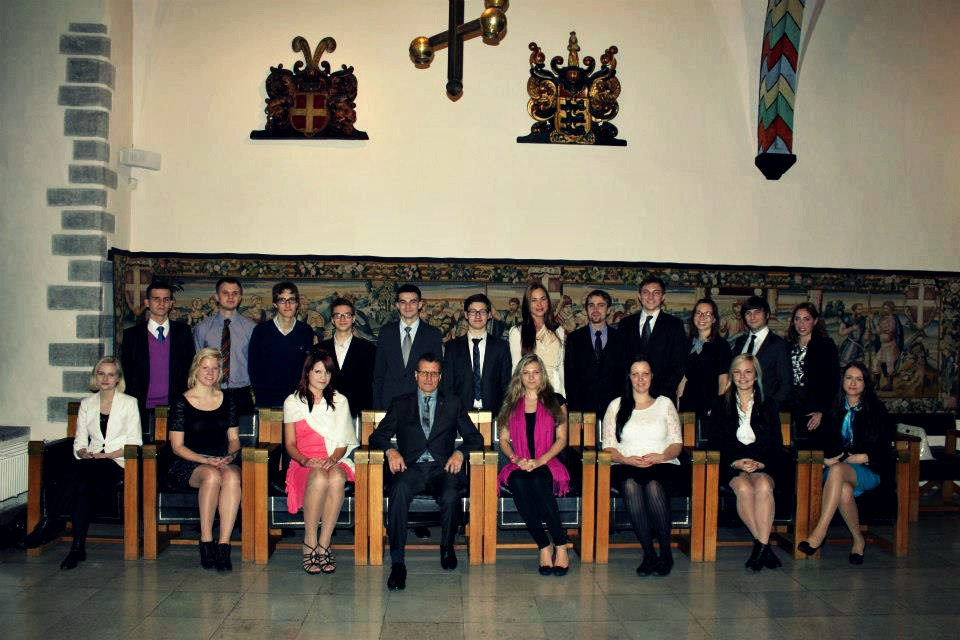 Tallinna linna noortevolikogu II koosseis